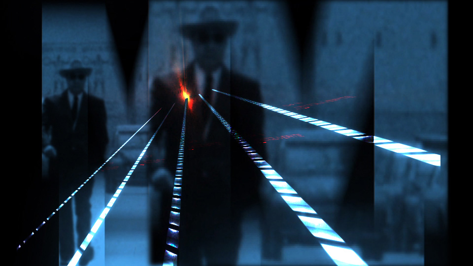 Générique image de Sous le nom de Melville